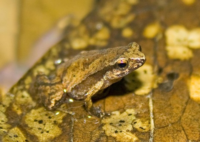 Physalaemus atlanticus at Museu de Zoologia da Universidade Estadual de Campinas 'Adão José Cardoso'